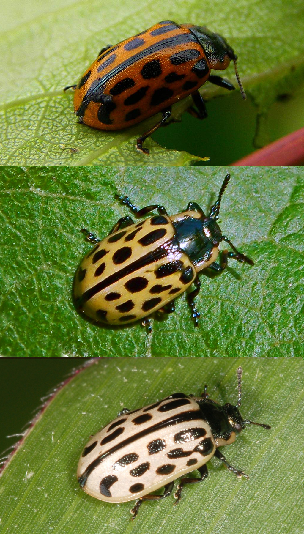 Chrysomela vigintipunctata - 3 color variation